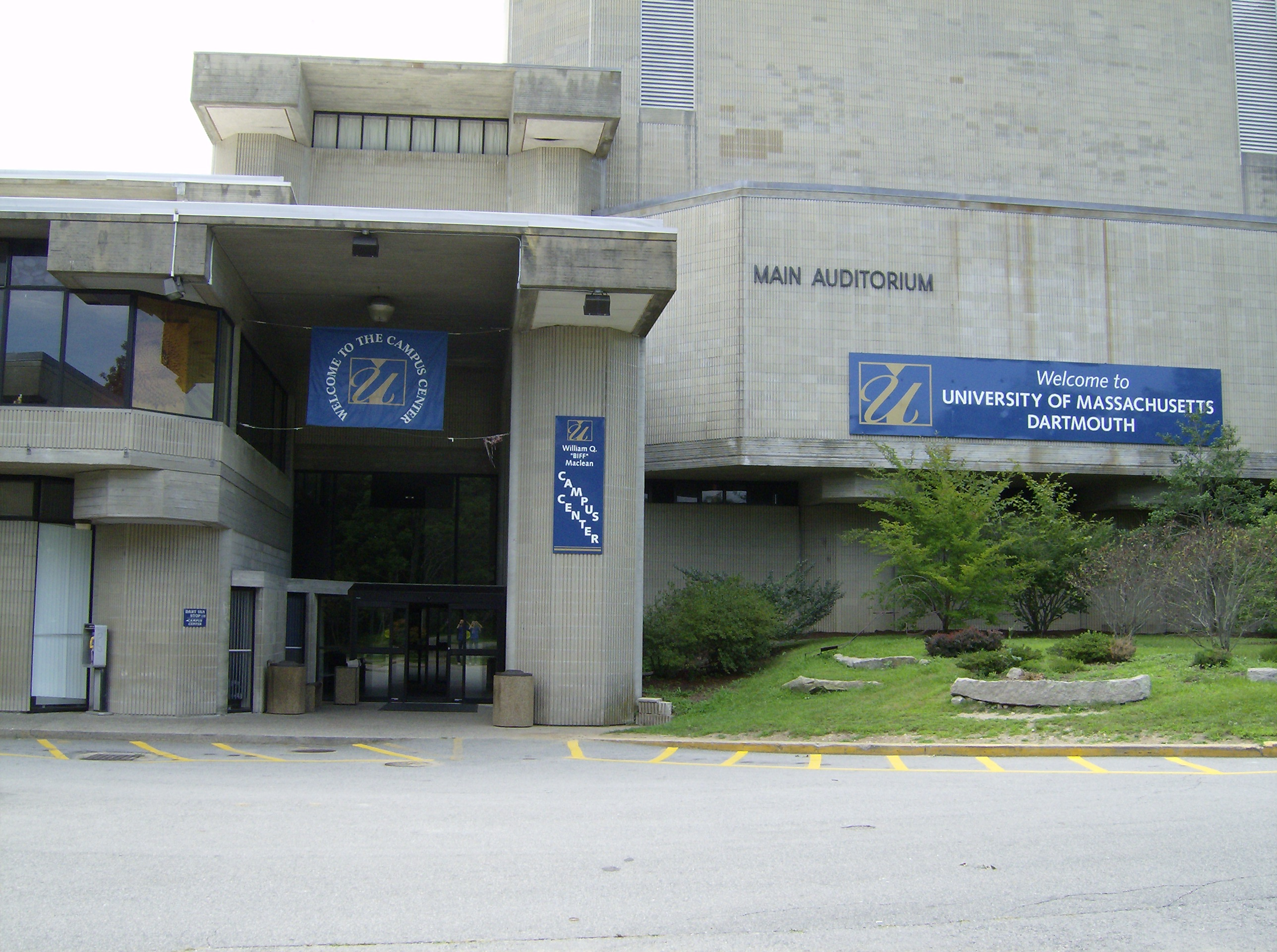 The entrance to the University of Massachusetts Dartmouth's Campus Center.